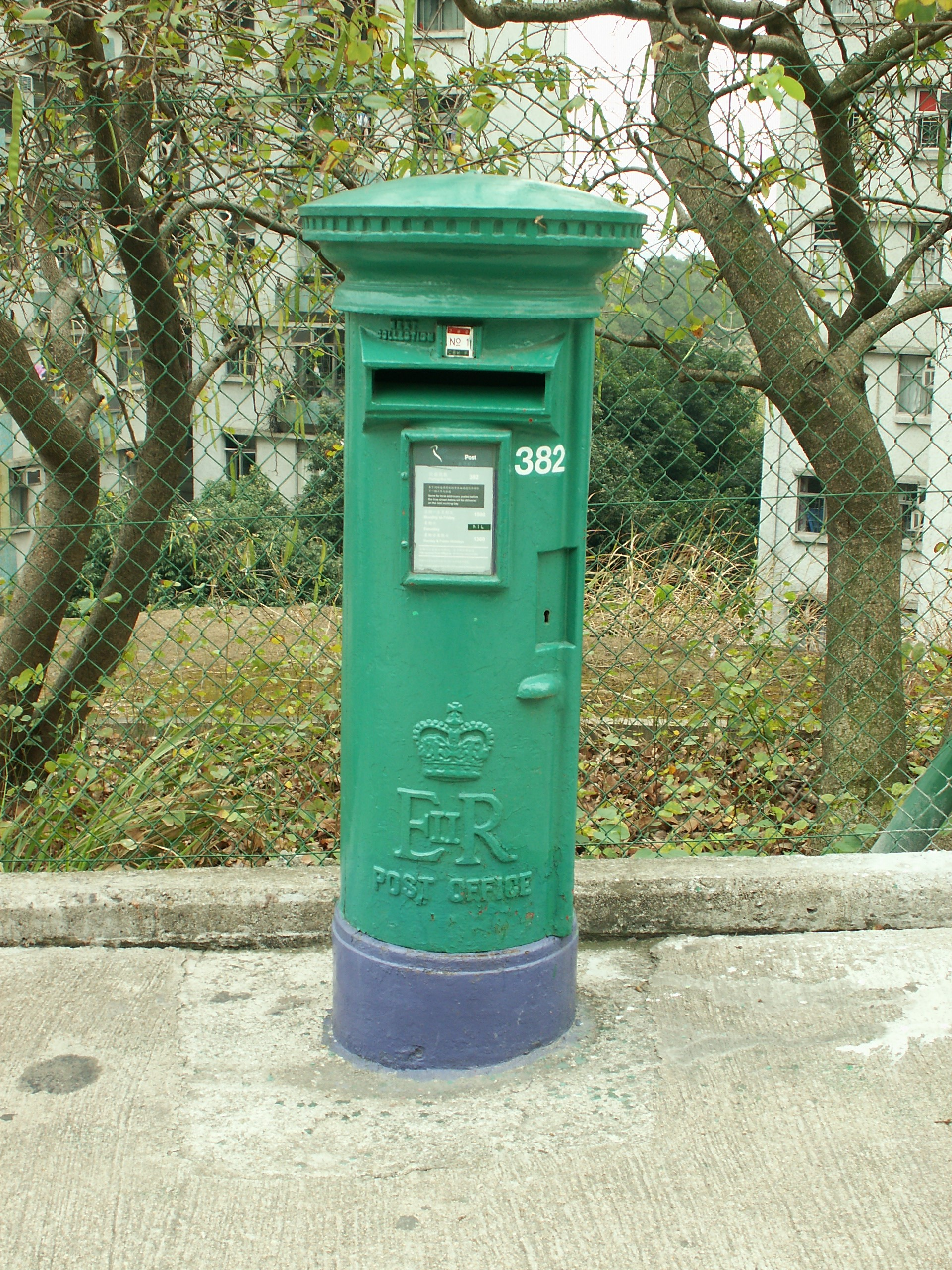 An Queen Elizabeth II postbox in Hong Kong which still had its "E II R" royal cypher on it. Seen at Lai King, the photo was taken by Jisp Cheung on 5 Apr 2007.